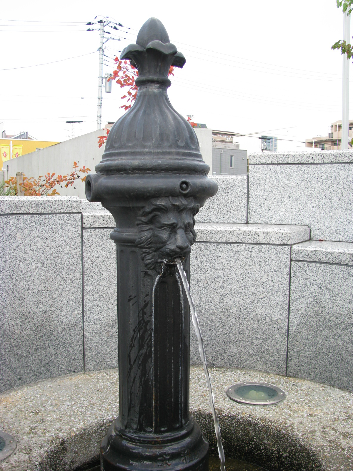 This is the Lion Head water tap in Yokohama. This was one of first water taps in Japan (1887-).